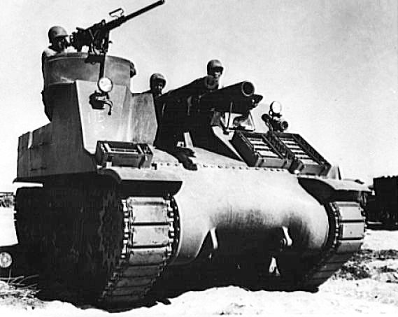 M7 Priest 105 mm self-propelled howitzer is the Army's newest tank destroyer and is really a "killer." Being tested for desert warfare at Iron Mountains, California. It carries both a 105mm Howitzer and a 50 caliber gun. Lieutenant M. Hutchison of Enterprise, Alabama is at the extreme right. Corporal L. Roberts from Graham, Texas is at post behind the Howitzer. Corporal Downing, whose home is Dekalb, Missouri, is in the turret.